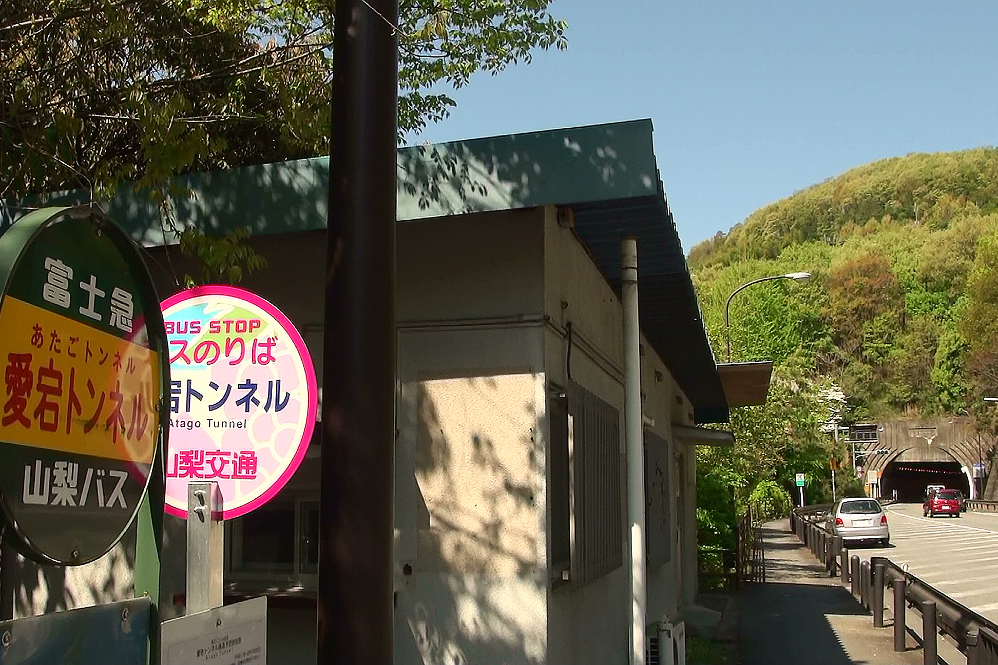 Atago-tunnel bus stop in the trace of the tollgate